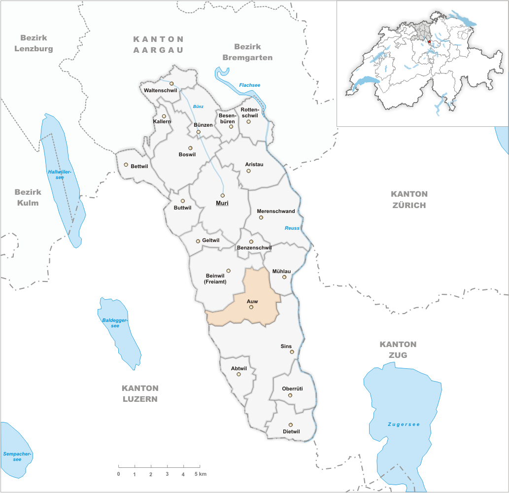 Municipality Auw